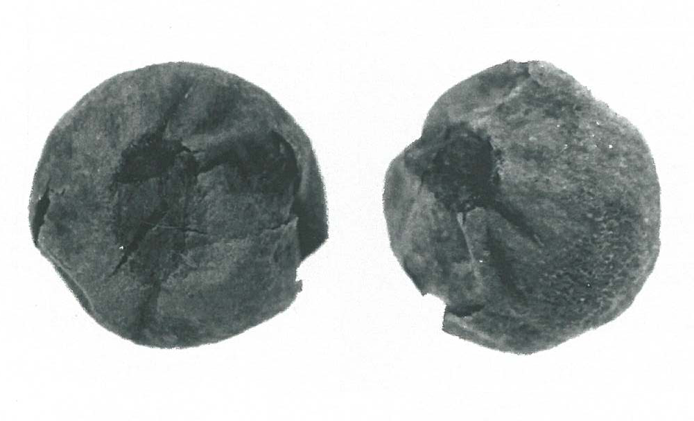 13th century peppercorn, found in Bremen, Germany. Oldest middle age peppercorn ever found north of the alps.